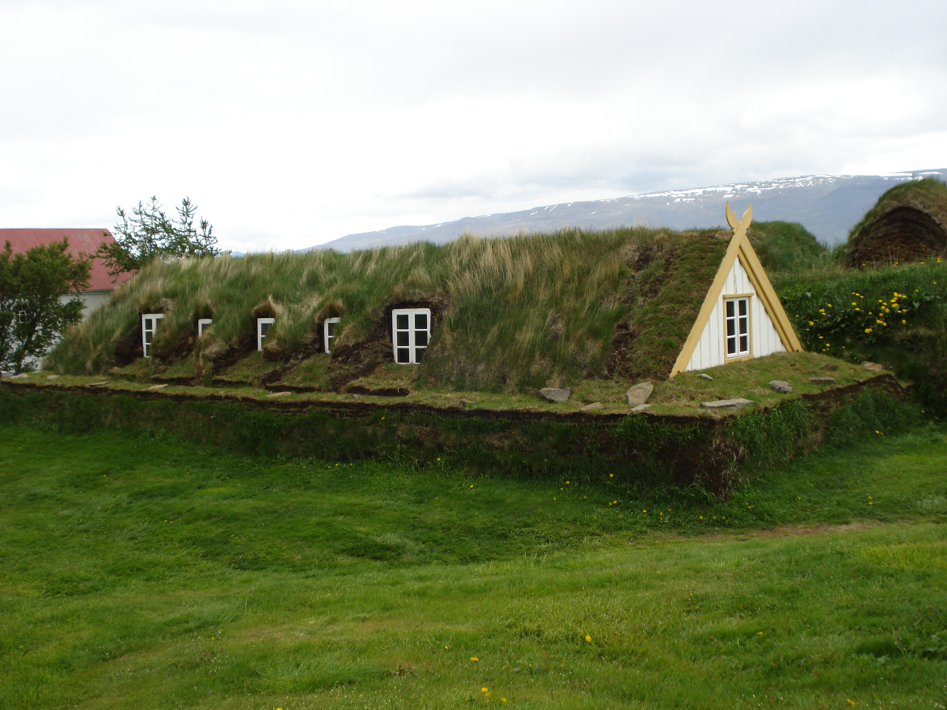 Turf roof of Glaumbaer, Iceland